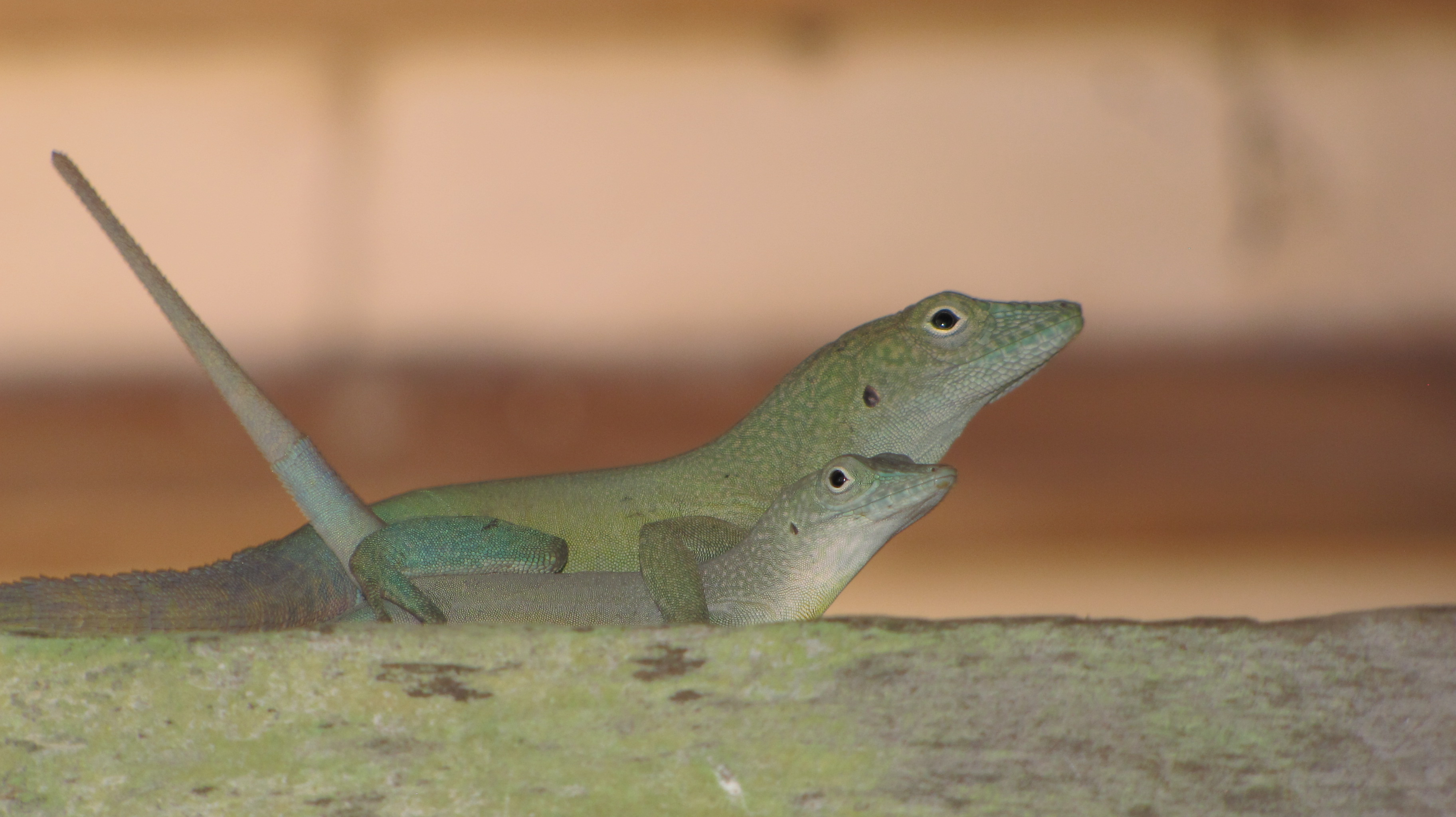 Jamaican anole lizards mating in the Botanical Gardens, Paget Parish, Bermuda